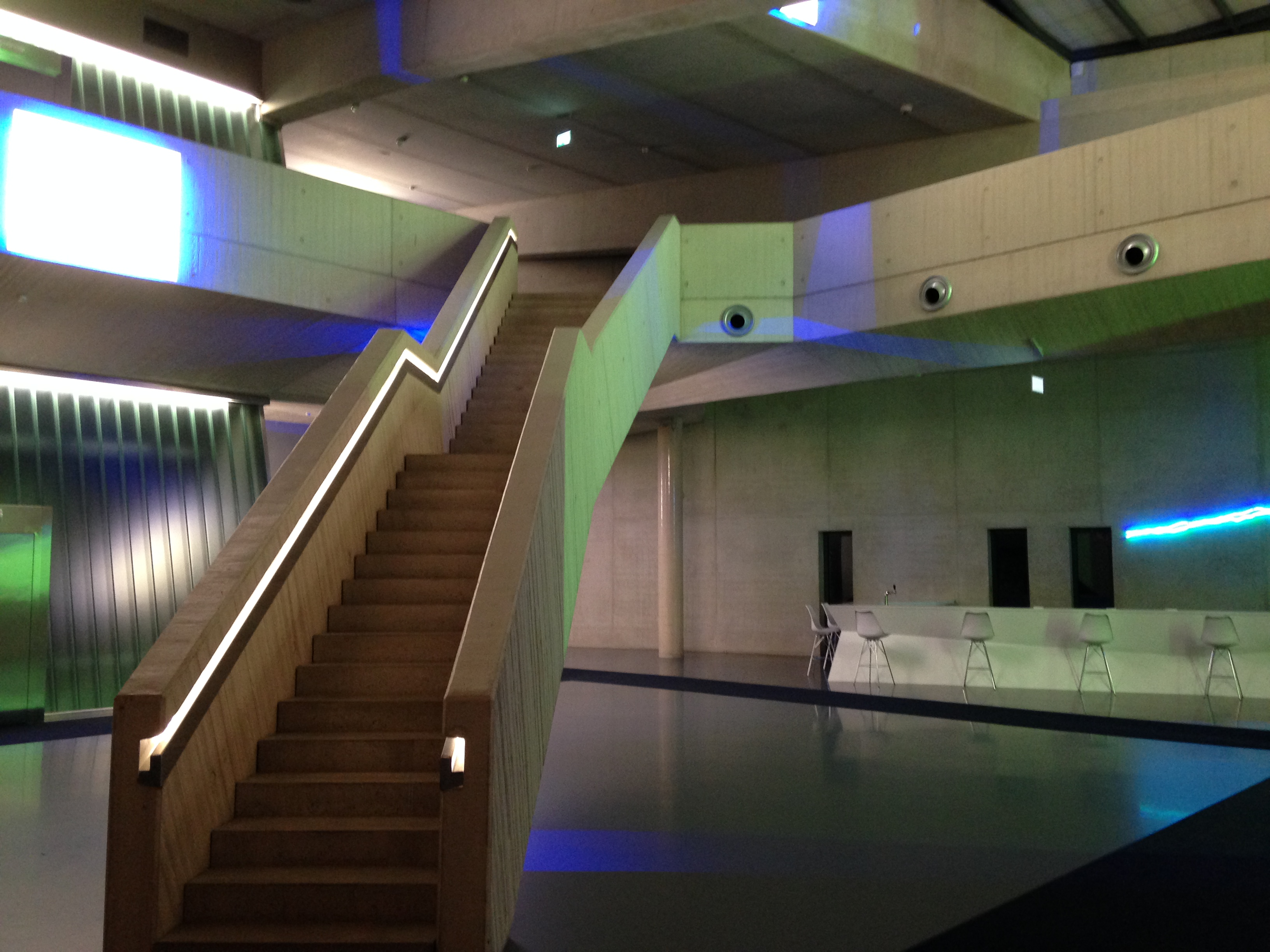 Main hall of the Luxembourg Freeport near the airport.